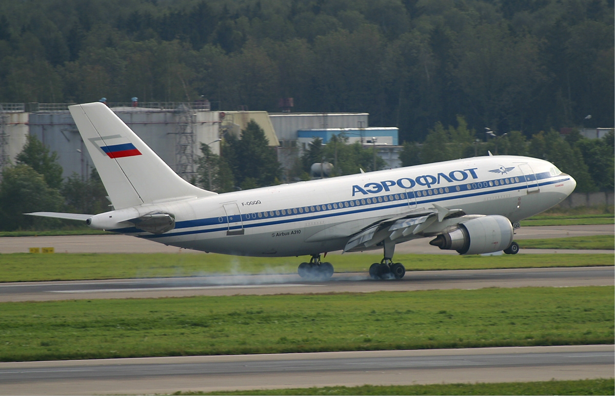 Aeroflot Airbus A310-300